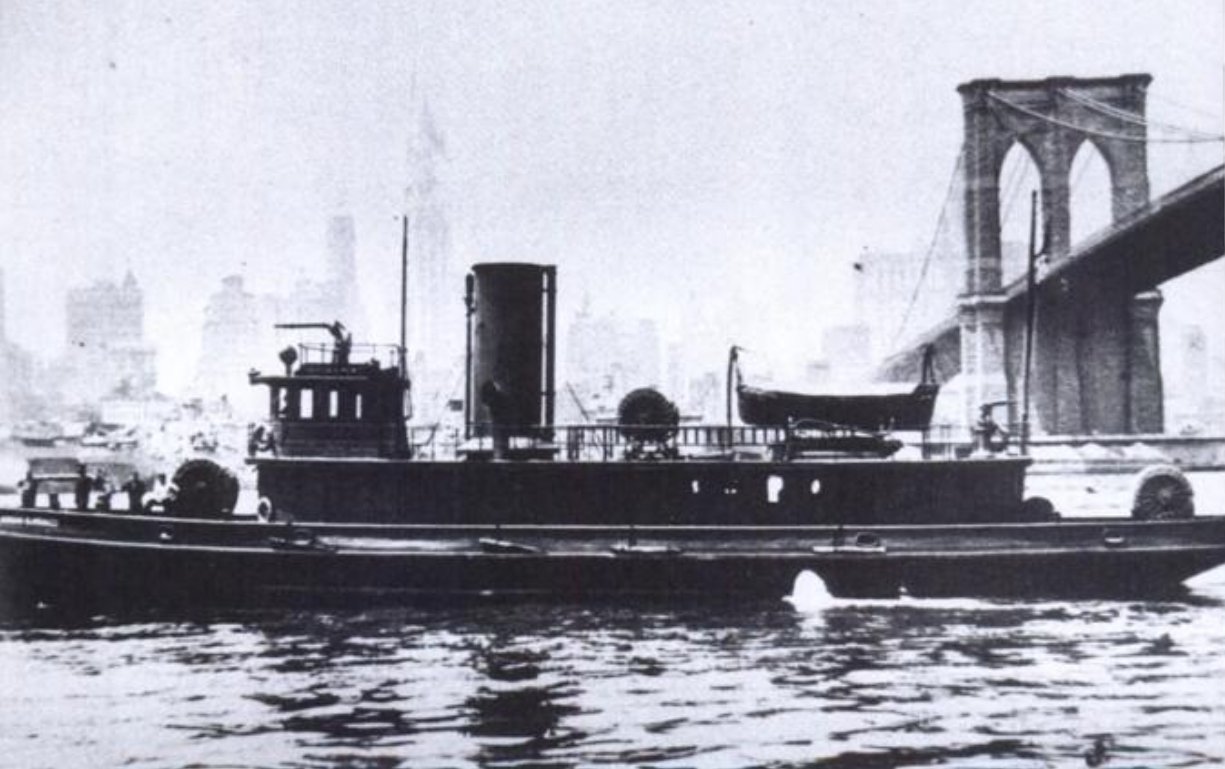 FDNY fireboat Abram S. Hewitt passes under the Brooklyn Bridge in 1903